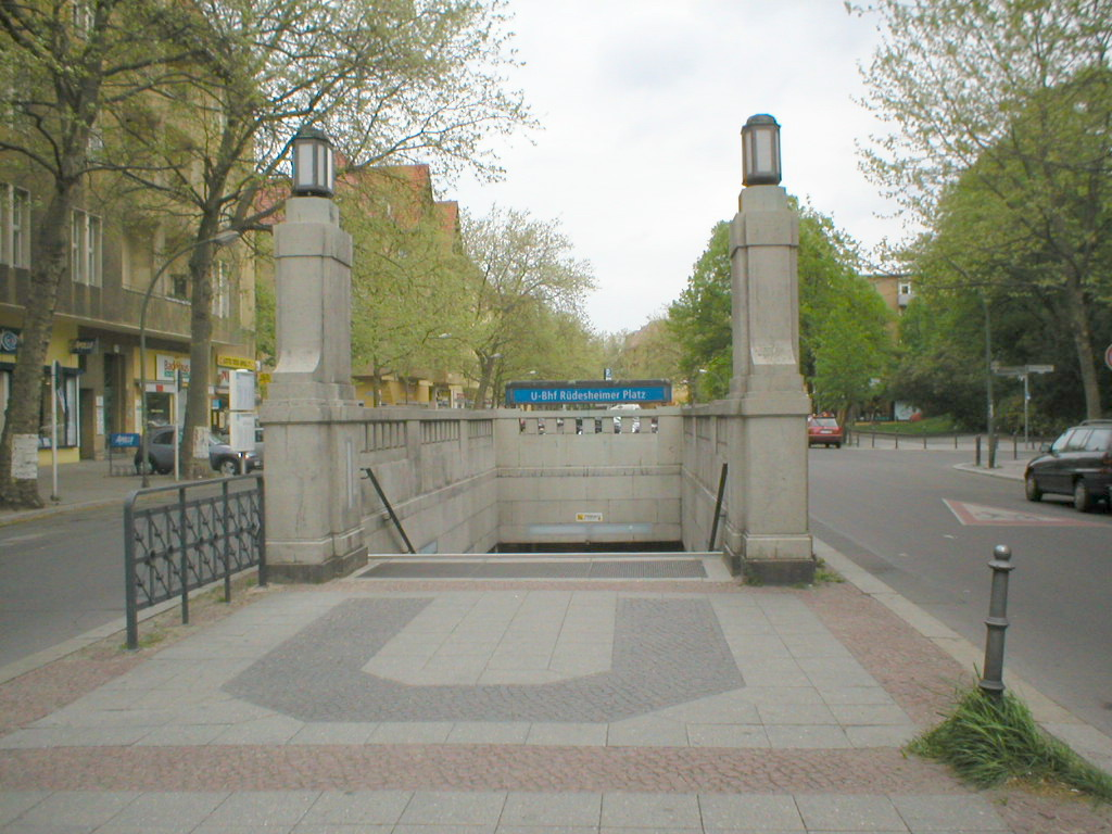 the Berlin U-Bahn station Rüdesheimer Platz, line U3